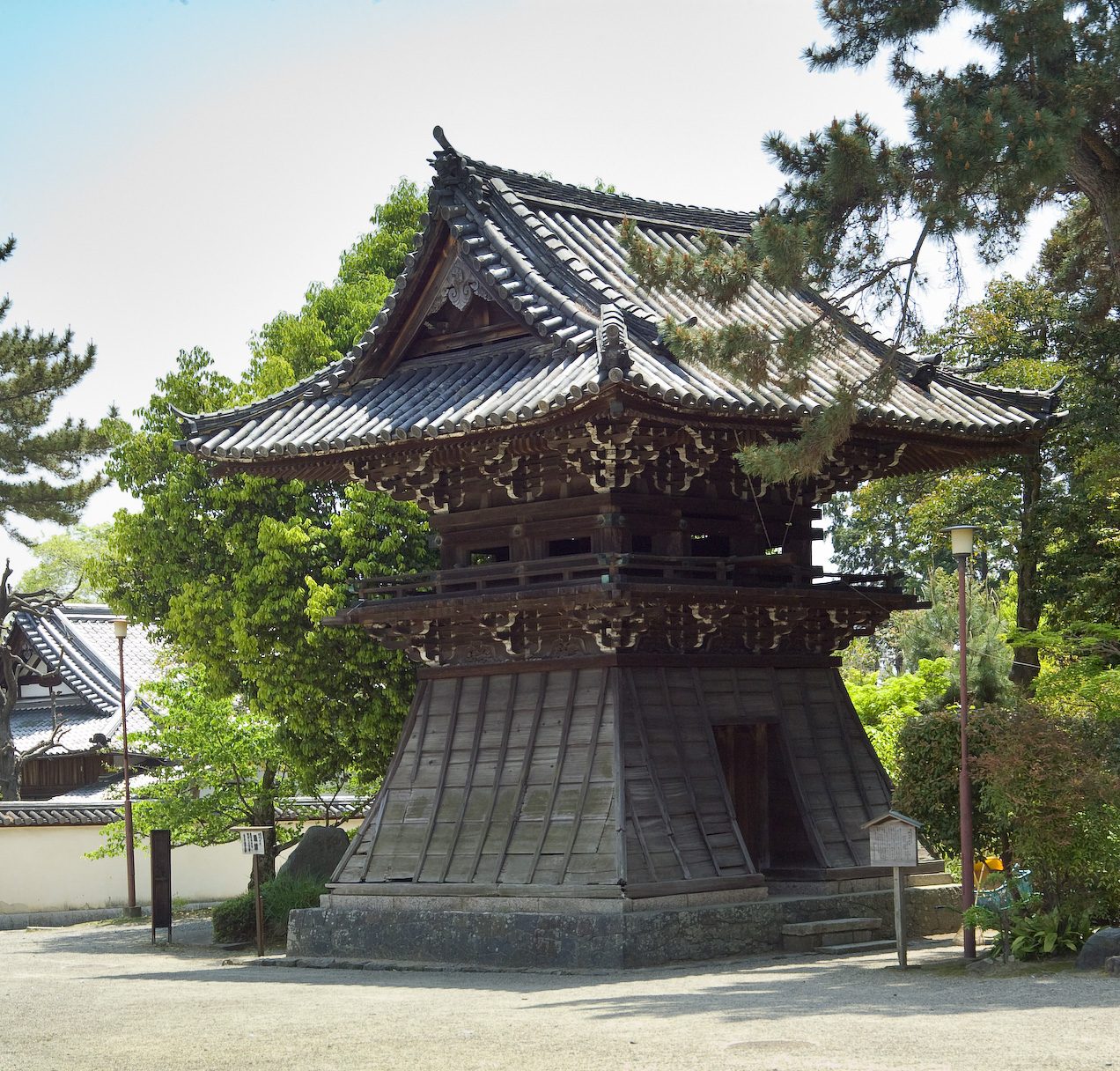 The building in this photograph is the bell tower or 鐘楼 at Saidai-ji, a Buddhist temple in Nara, Japan.